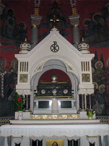 Reliquary, Chapel of the Martyrs of Nepi in Katowice Panewniki